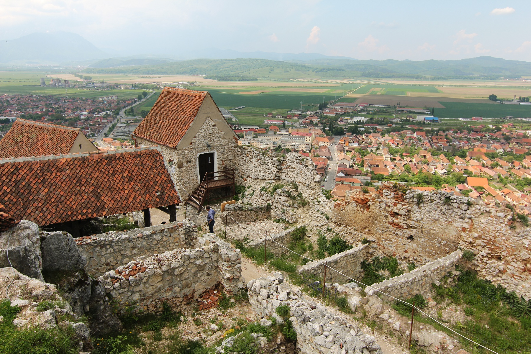 View on the city of Râșnov and ruins of the Râșnov citadelRomână: Vedere a orașului Râșnov și a ruinelor Cetății Râșnov